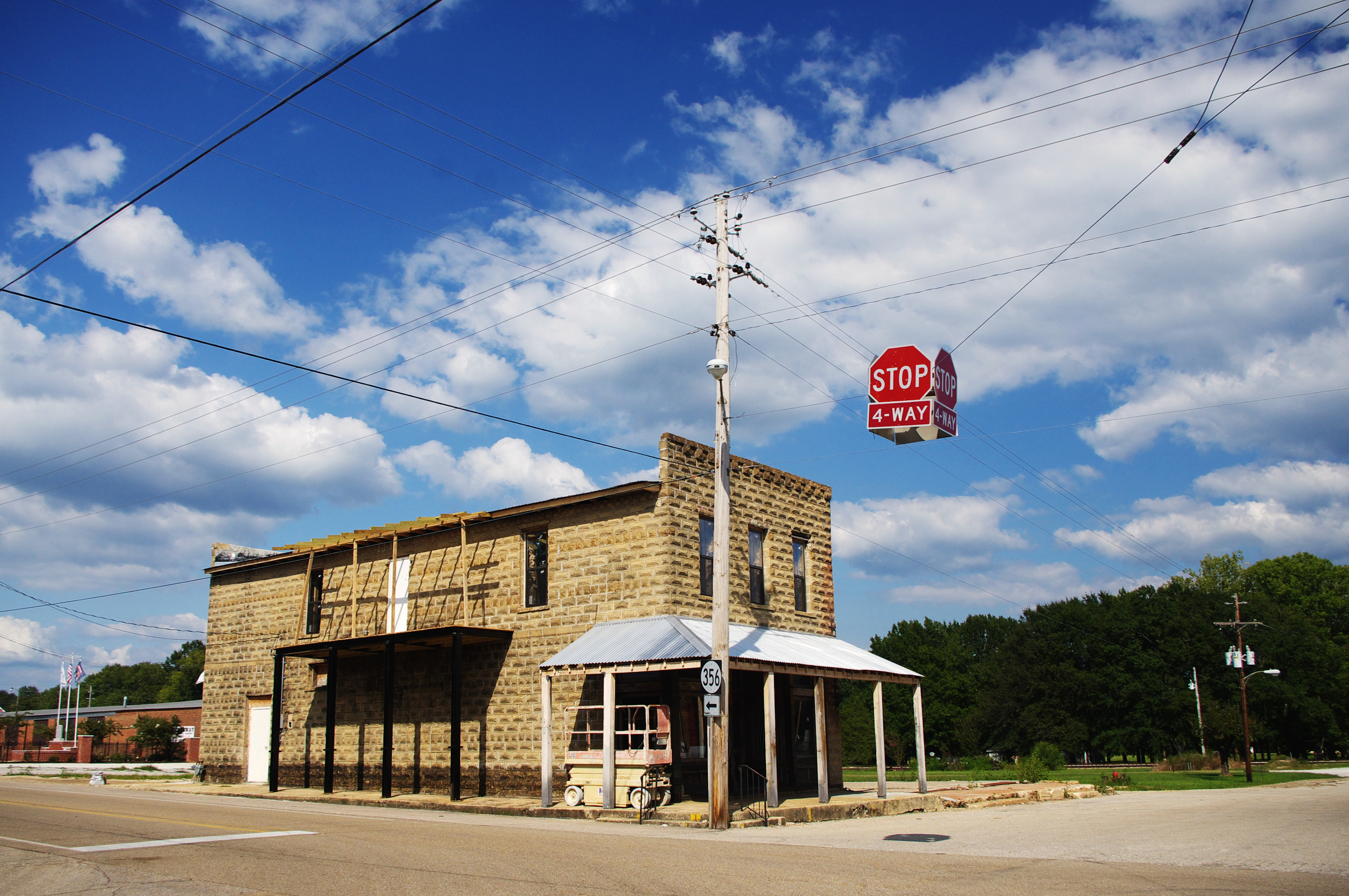 Building at the corner of Main and Front streets in Rienzi, Mississippi, United States. This building is listed on the National Register of Historic Places as a contributing property in the Rienzi Commercial Historic District.